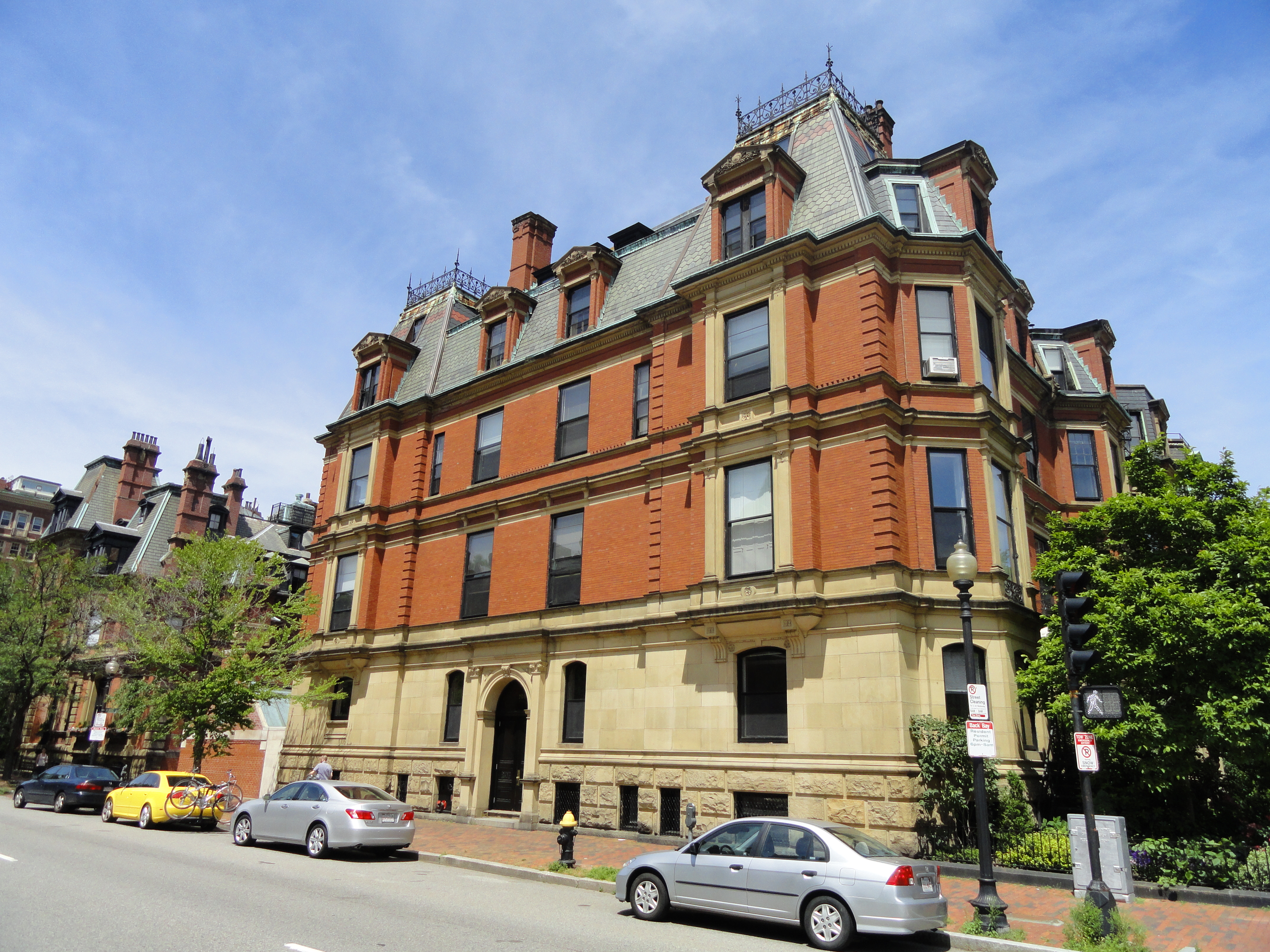 Commonwealth School, 151 Commonwealth Avenue, Boston, Massachusetts, USA.